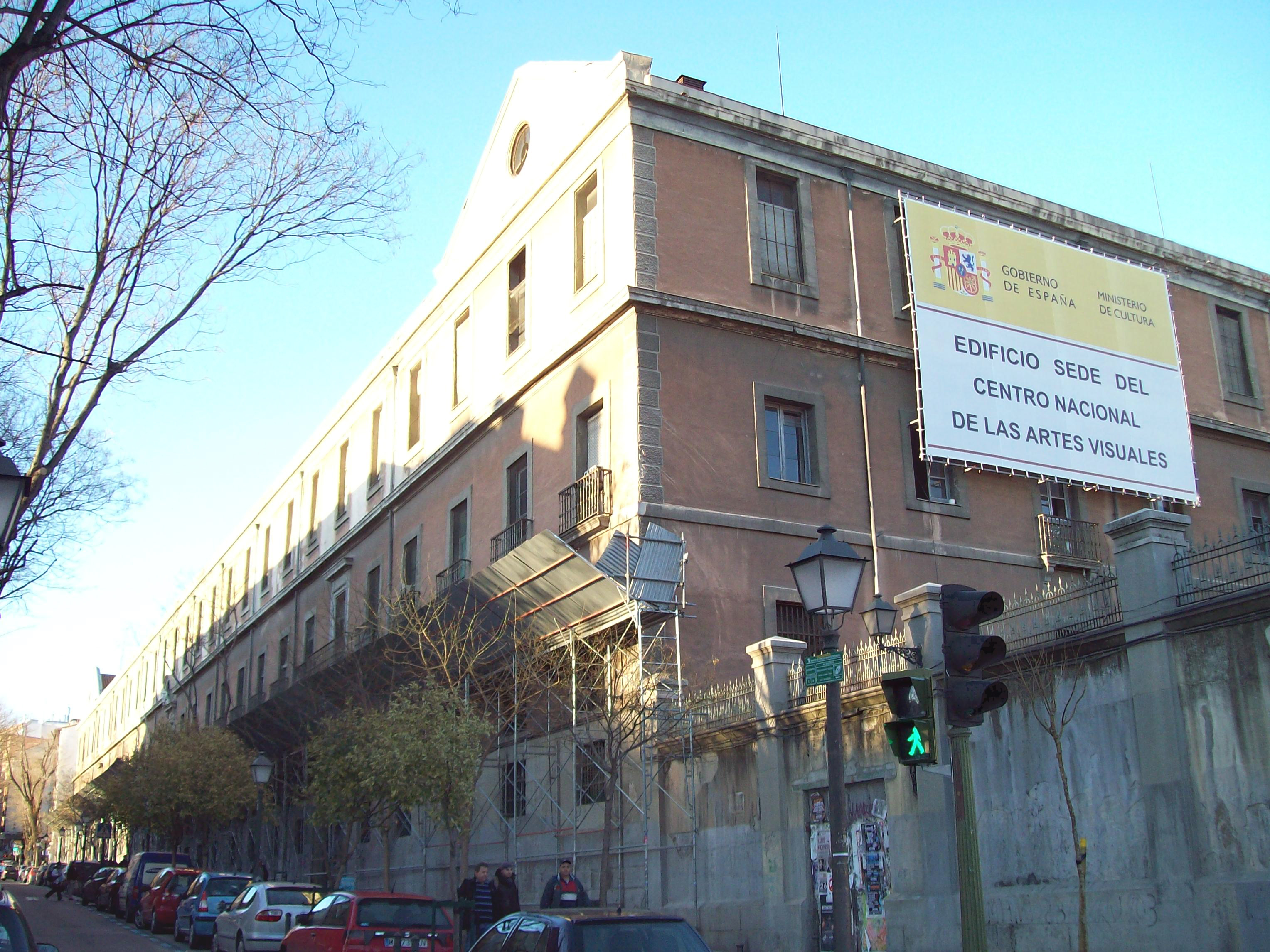 View, from the south-west angle, of the former Fábrica de Tabacos ("Tobacco Factory") of Madrid (Spain), at 53 Calle de Embajadores (street, Centro district). Building was projected by architect Manuel de la Ballina and built between 1781 and 1792. At the present day it's under restoration, and it will be the future headquarters of the National Center for the Visual Arts.